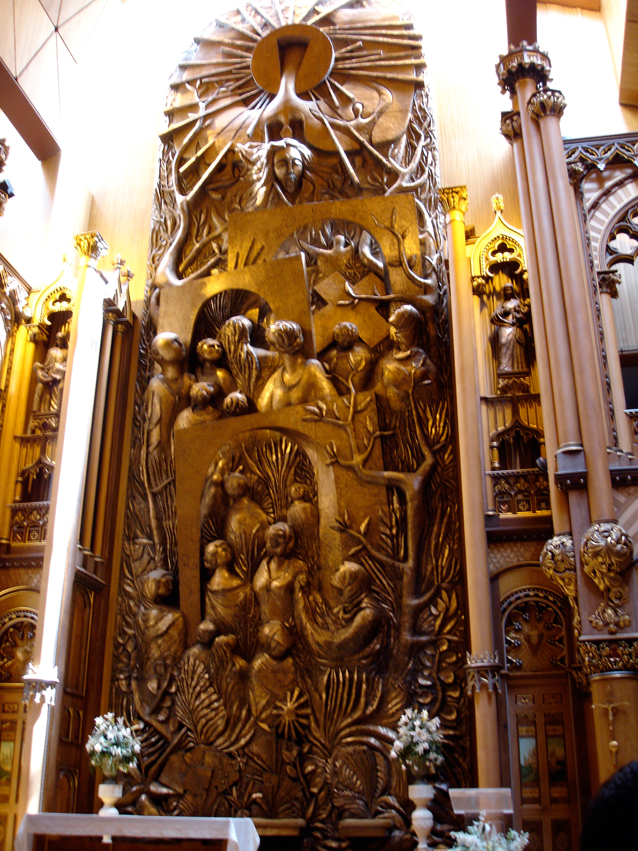 Quebec sculptor Charles Daudelin was commissioned to create this altarpiece. It consists of 32 bronze panels, which were cast by Morris Singer Founders of London, England. The altarpiece is 5 metres wide and 8 metres high (16 feet by 26 feet) and weighs 20 tons.